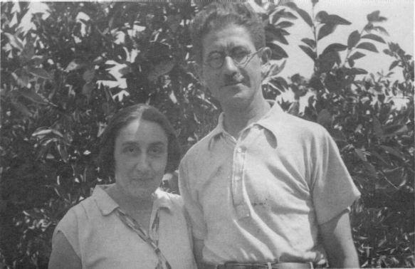 Erich Dov Moses with his wife, Else